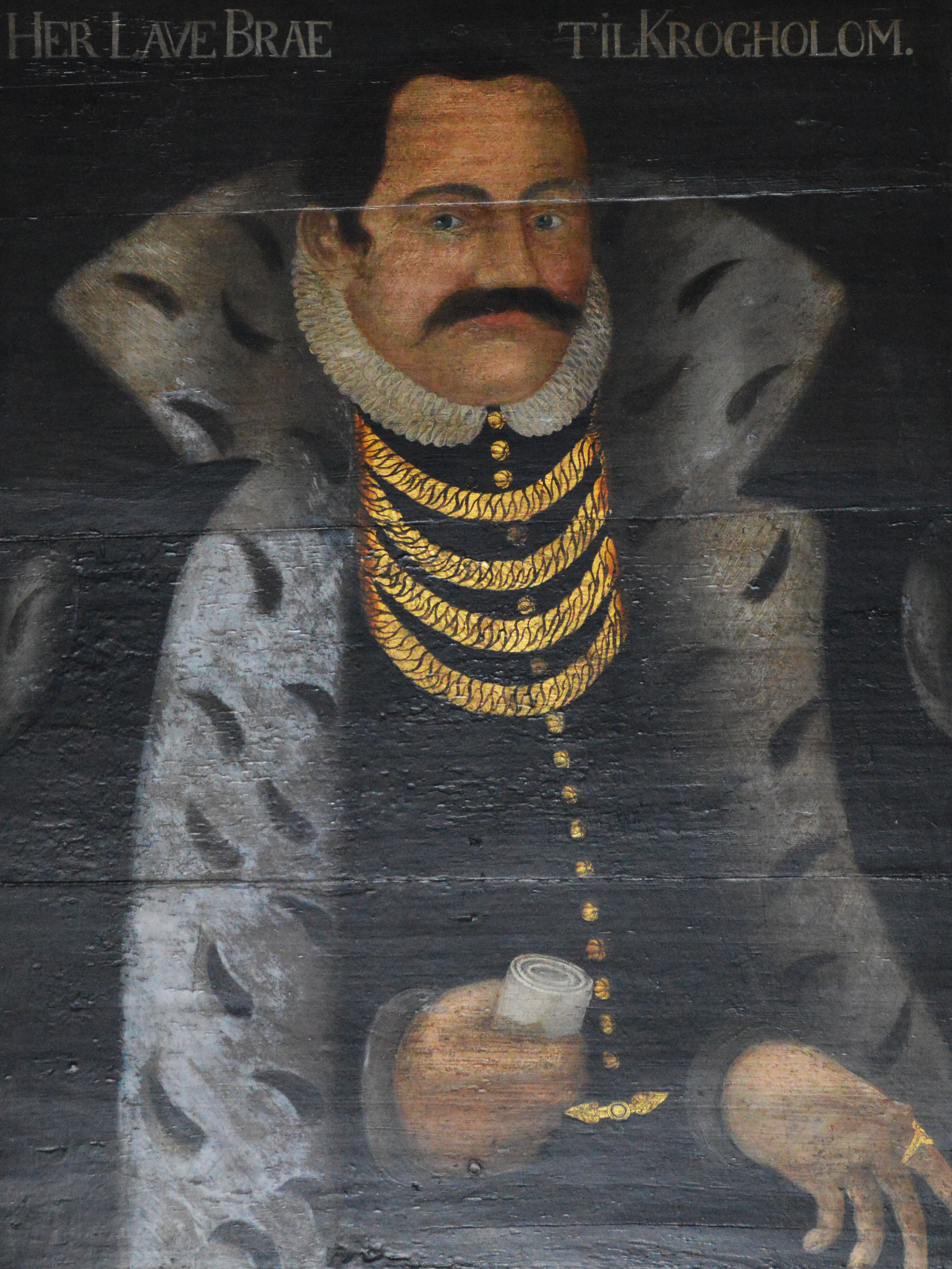 Lave Brahe (1500-1567), danish noble.